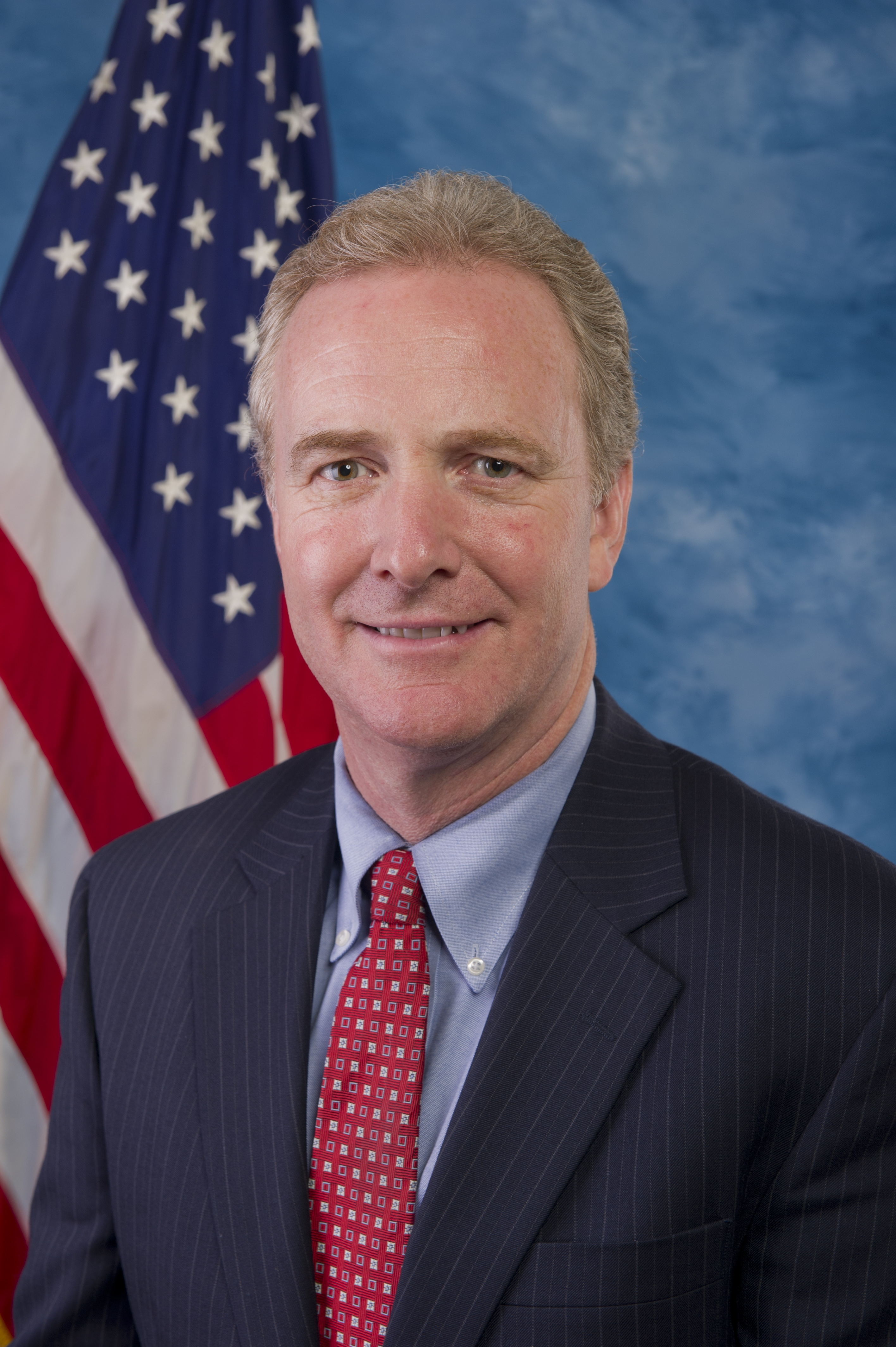 Chris Van Hollen official portrait, 2010